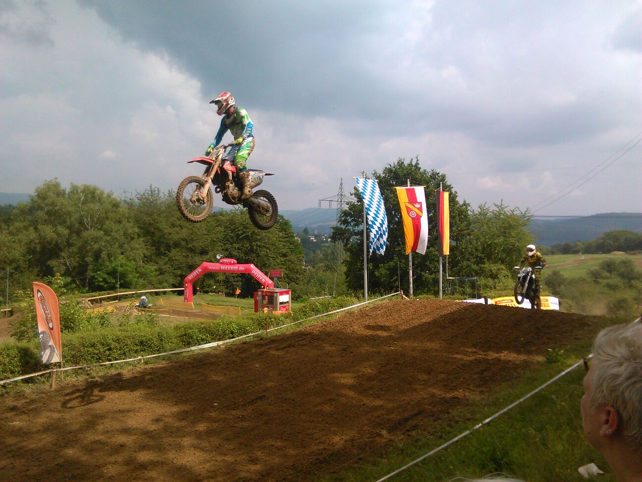 Motocross riders jumping in Goldbach, Lower Franconia, Germany